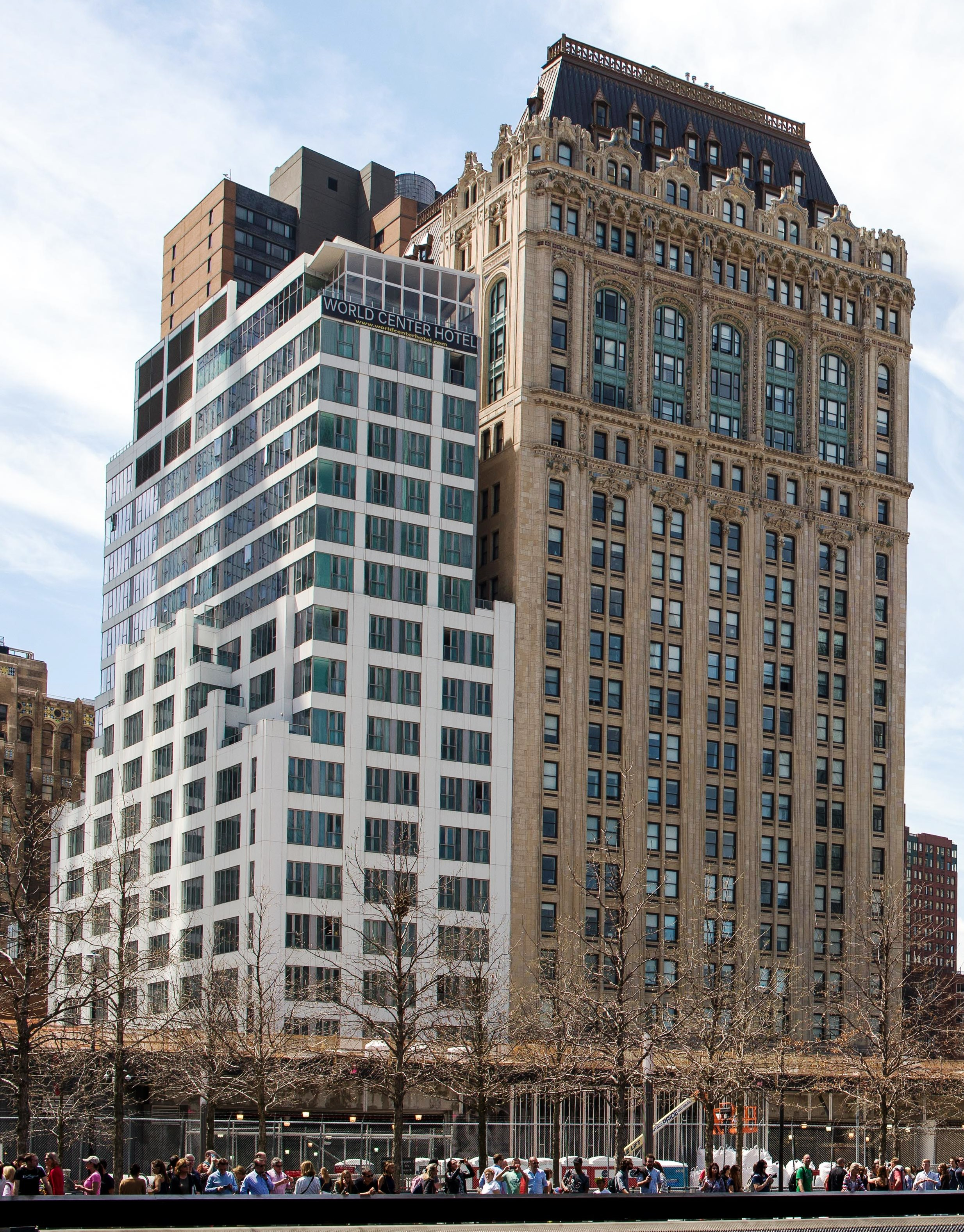 Looking south from the World Trade Center memorial. Shown are the World Center Hotel and 90 West Street.